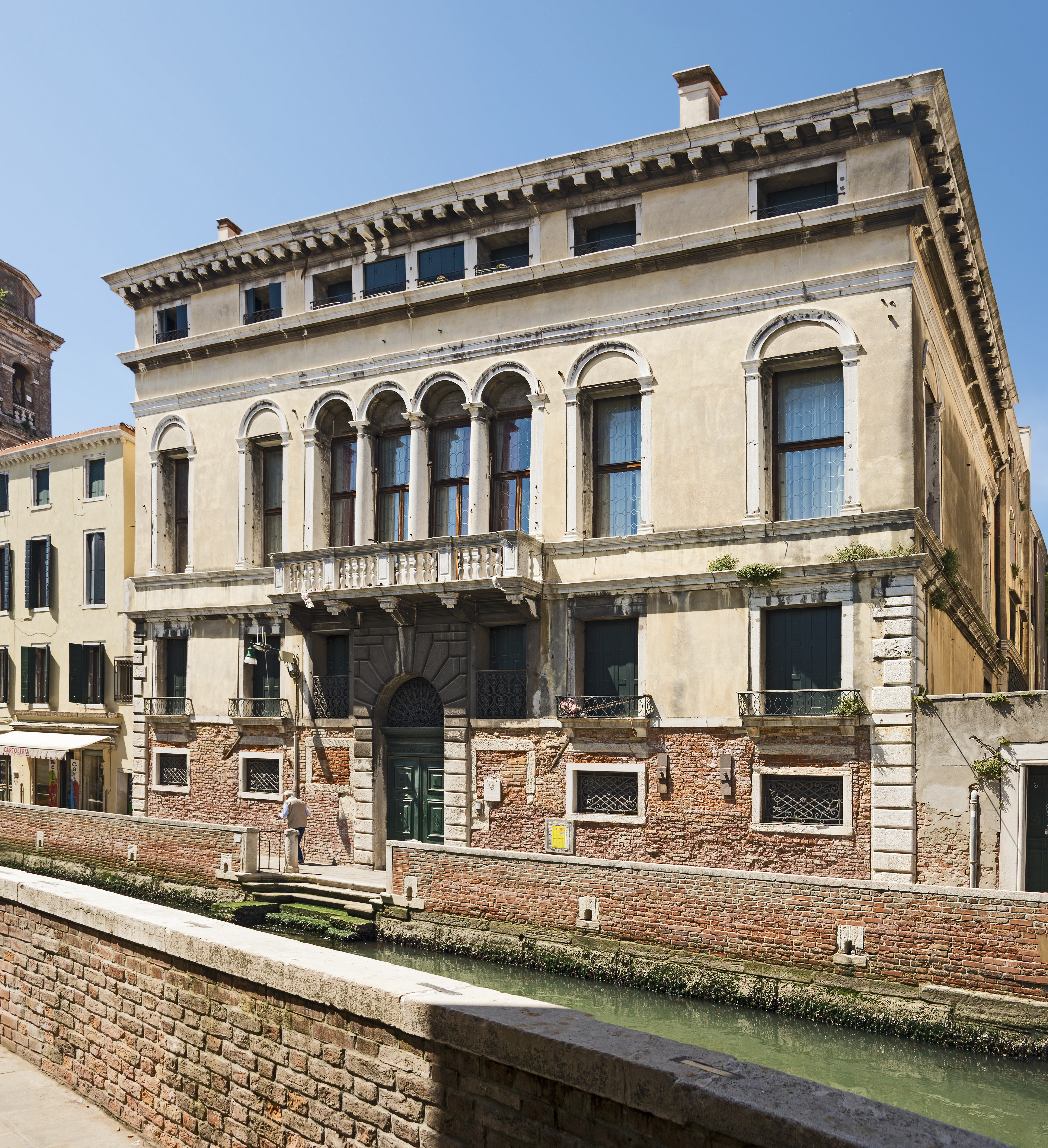 Ca' Bembo (Palazzo Marcello Sangiantoffetti) – Facade on Rio di San Trovaso, in Venice.